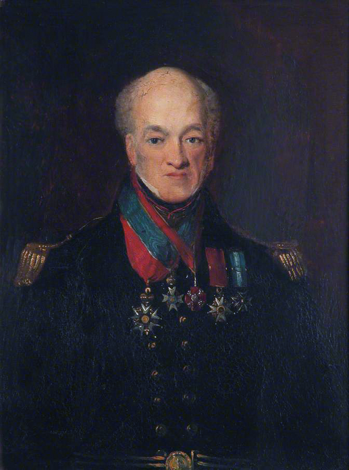 Captain Sir Thomas Fellowes (1778-1853) oil on panel 40.6 x 25.4 cm